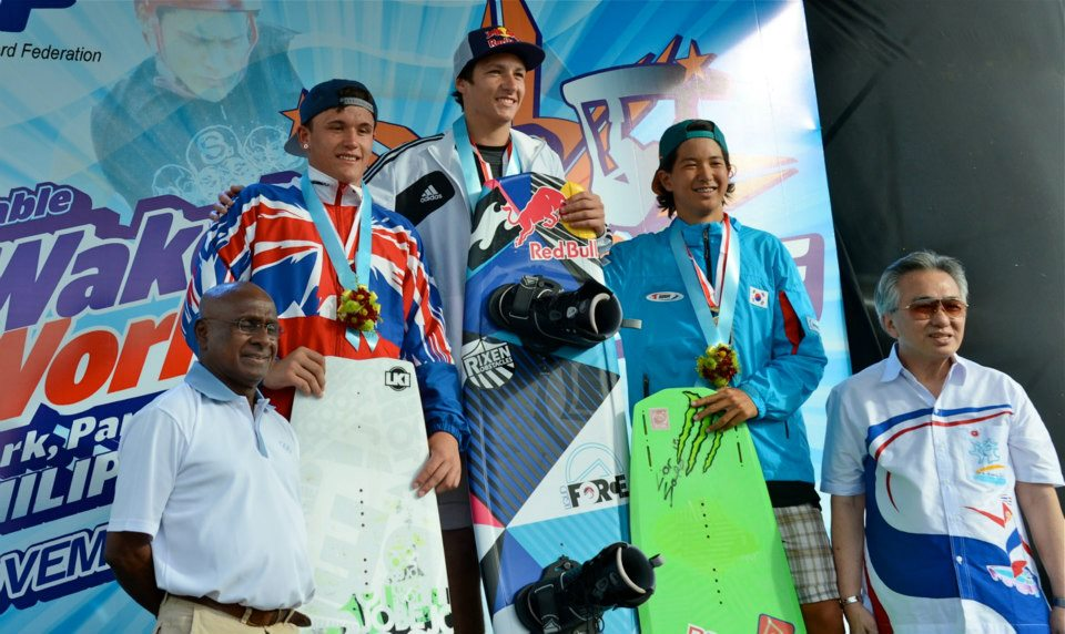 Siegerehrung Weltmeister 2012 Manila, Phillipinen